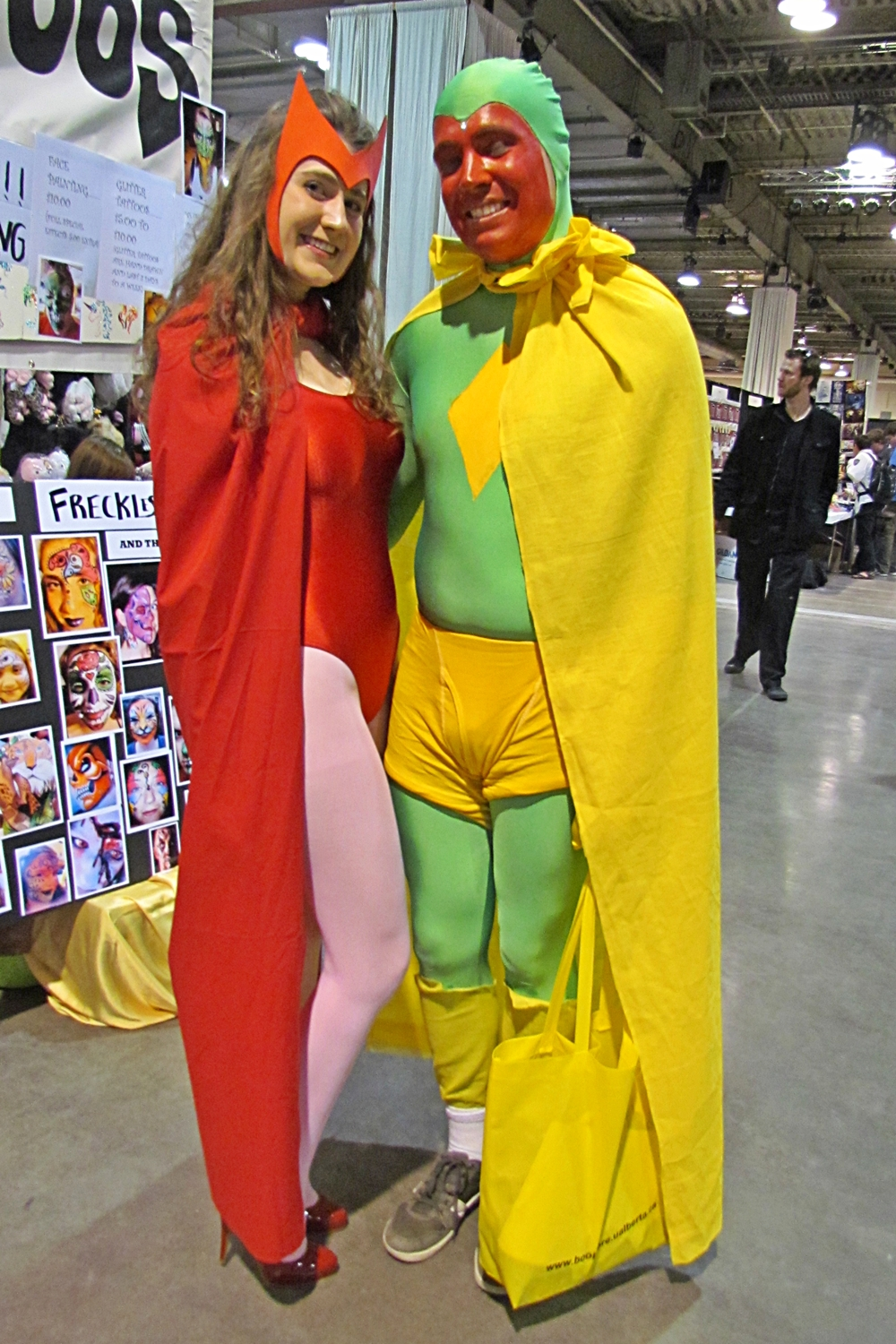 The Scarlet Witch is a fictional comic book character that first appeared in X-Men #4 (March 1964) and was created by Stan Lee and Jack Kirby. She is the daughter of Magneto. The Vision was created by writer Roy Thomas and penciller John Buscema, and first appeared in the superhero-team series The Avengers #57 (Oct. 1968). The Vision starred with fellow Avenger and wife the Scarlet Witch in the limited series Vision and the Scarlet Witch #1-4 (Nov. 1982 - Feb. 1983) by writer Bill Mantlo and penciller Rick Leonardi. This was followed by a second volume numbered #1-12 (Oct. 1985 - Sept. 1986) written by Steve Englehart and pencilled by Richard Howell. Photo taken at the Calgary Comic and Entertainment Expo, BMO Centre, Calgary, Alberta, Canada.